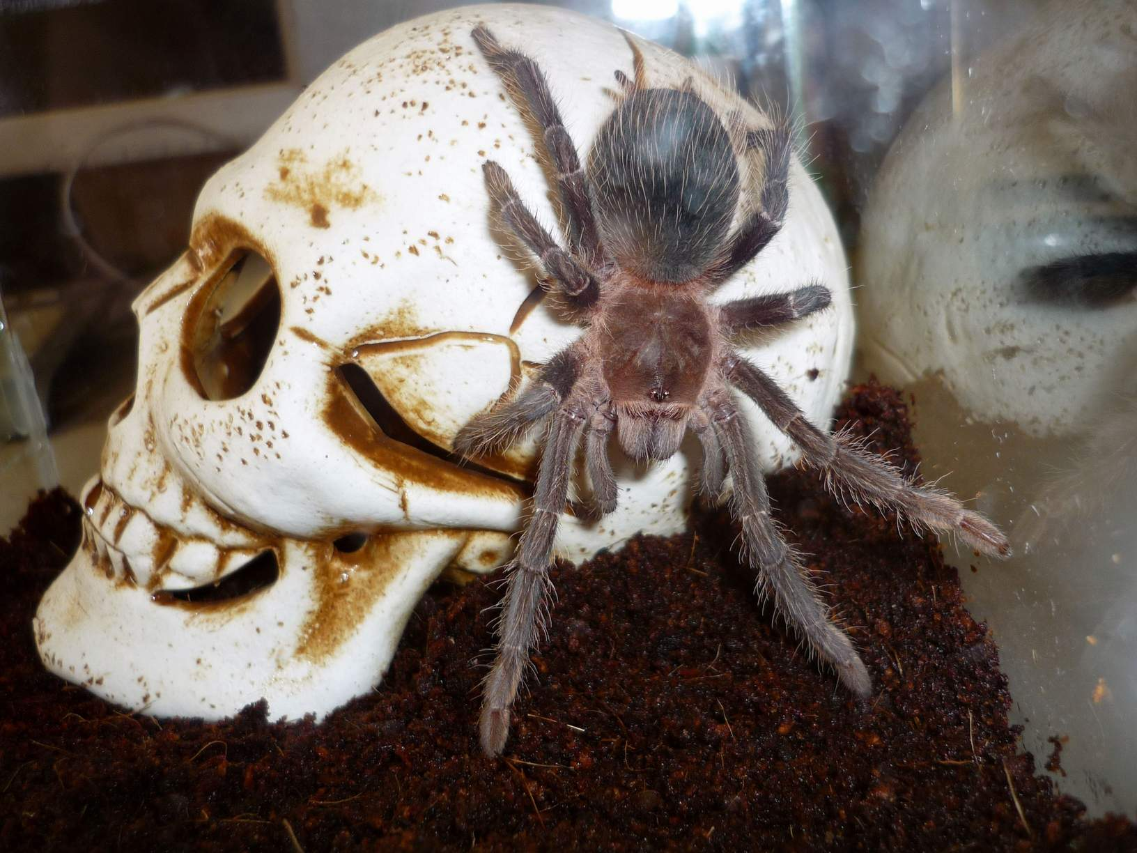 Lasiodora parahybana 8L